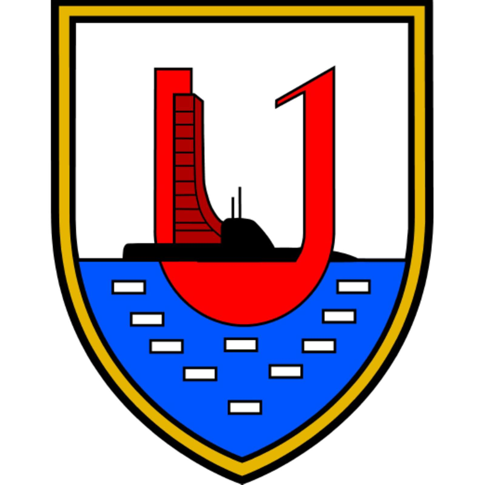 Internal coat of arms of the Bundeswehr (Armed Forces of the Federal Republic of Germany). → Remarks on naming and categorization scheme